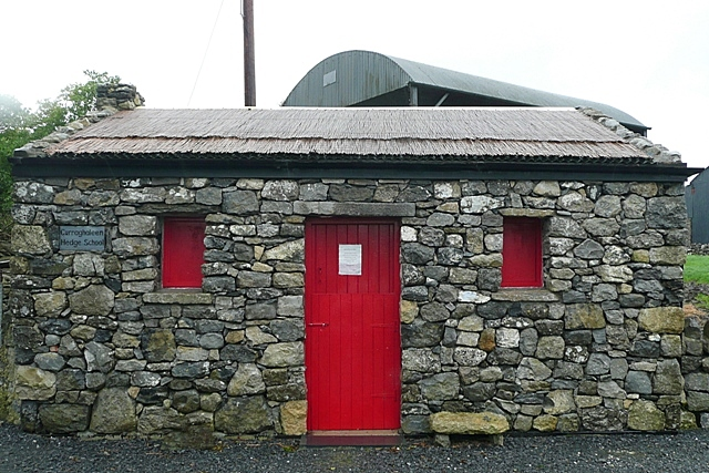 Curraghaleen hedge school. A hedge school is a school set up in 19th century rural Ireland, usually by a local man giving oral teaching in the area. The name suggests an outdoor school, but often they were in barns such as this one that has been preserved. For more information see Hedge_school and for its context see 963520